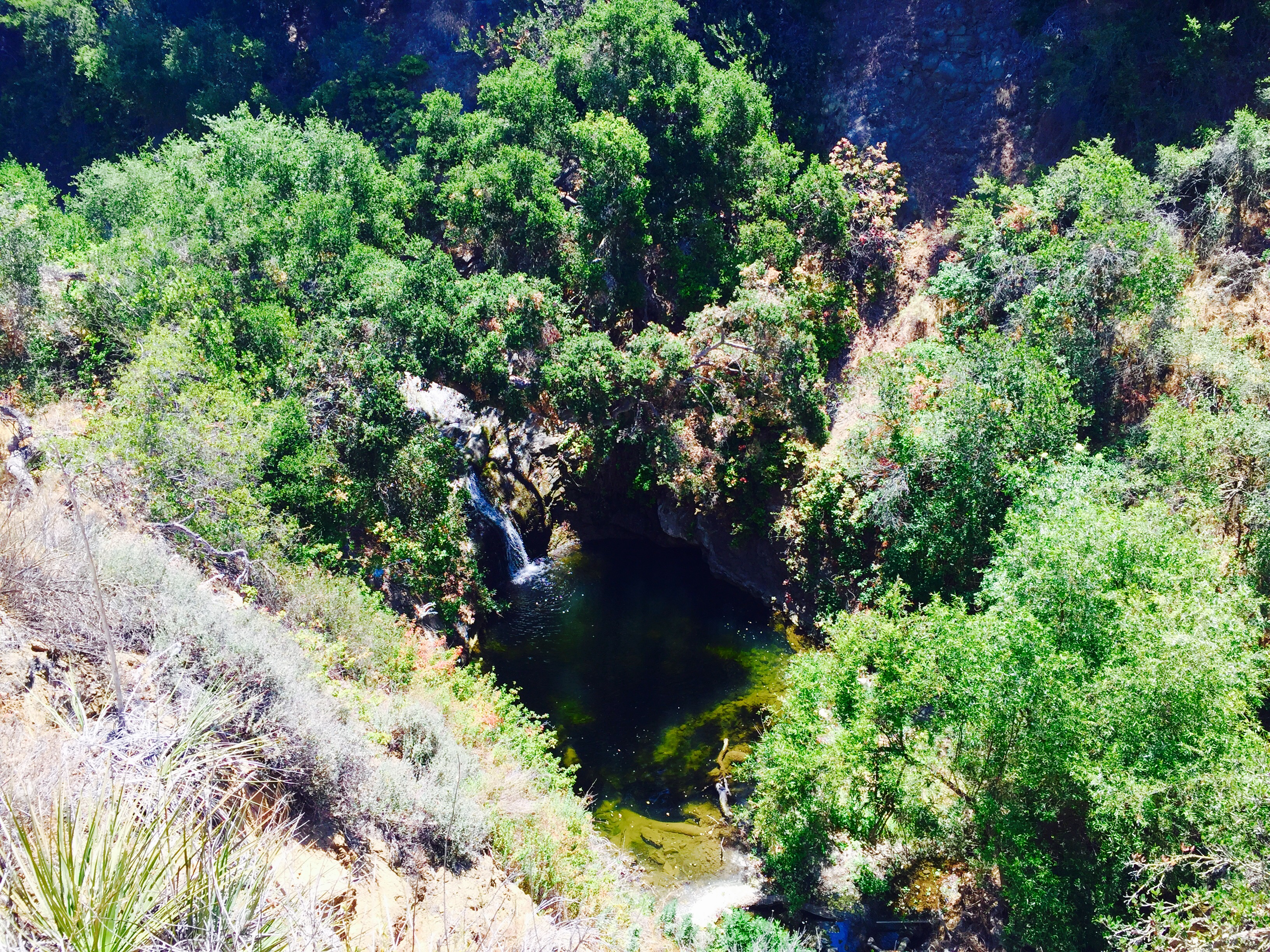 Little Falls waterfall north of Paradise Falls along the Arroyo Conejo in Wildwood Regional Park in Thousand Oaks, CA.